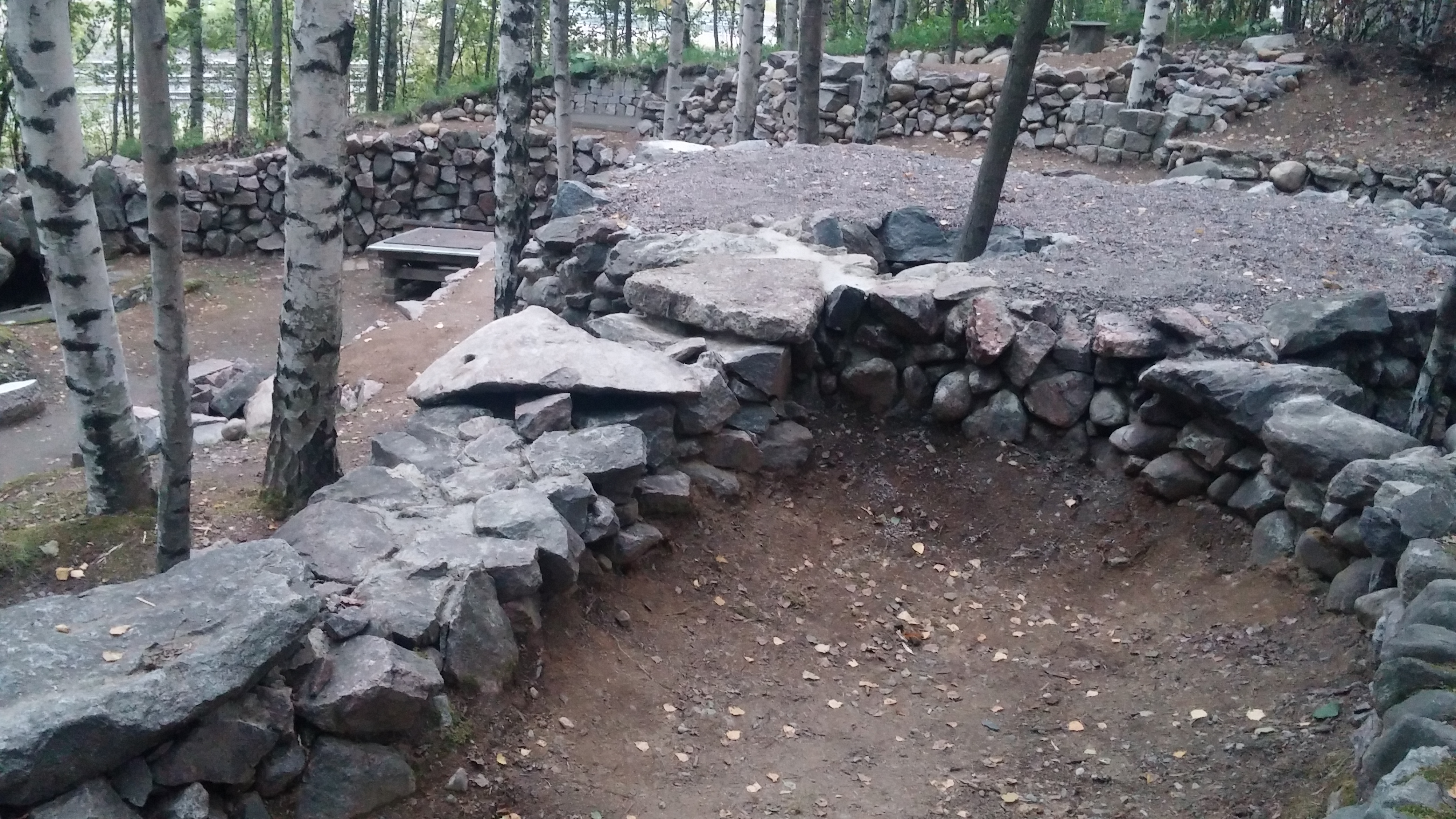 Pasilan kivilinna